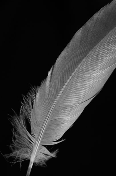 Single black and white feather